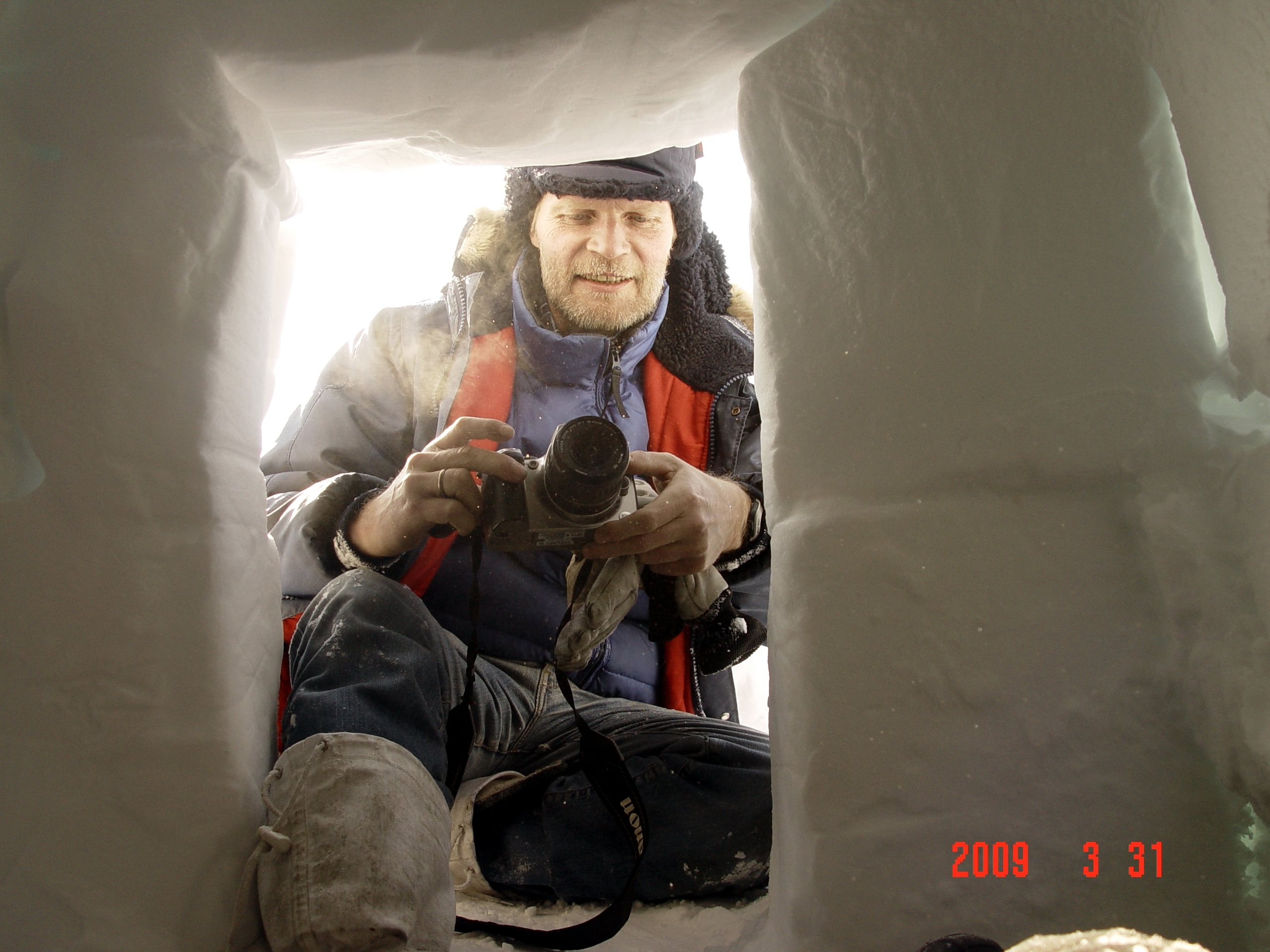 Melles Elgygytgyn